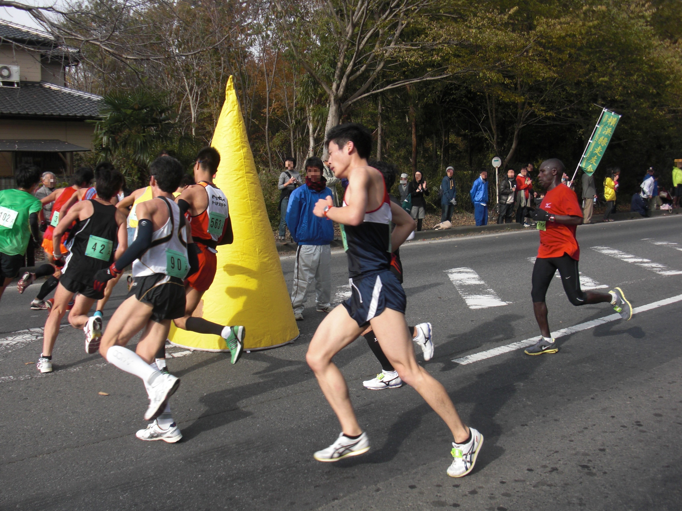 This is the photo about the turnig point of Tsukuba Marathon.